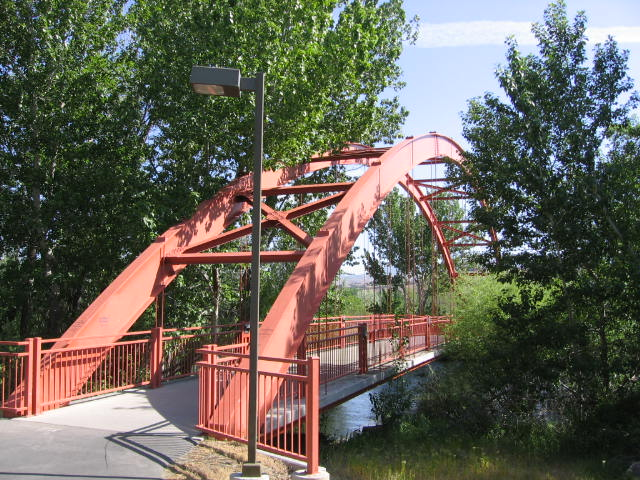 One of several motor vehicle-free bridges across the Boise River connecting both side of the Boise Greenbelt.